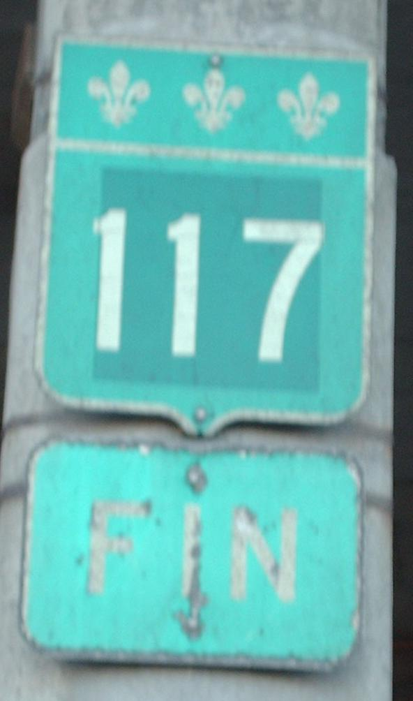 "117 End" sign (Marcel Laurin Blvd.) photographed in Montreal, Quebec, Canada.